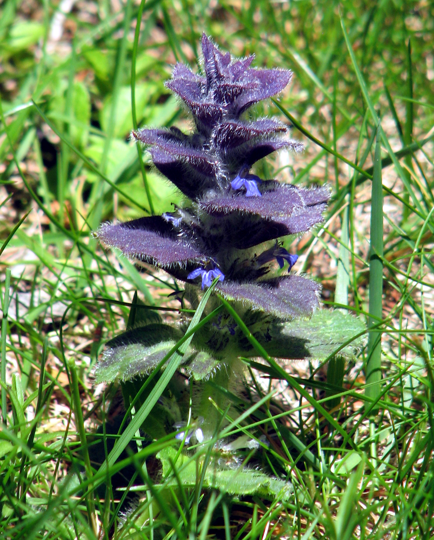 Ajuga pyramidalis Stubalm, Styria, Austria